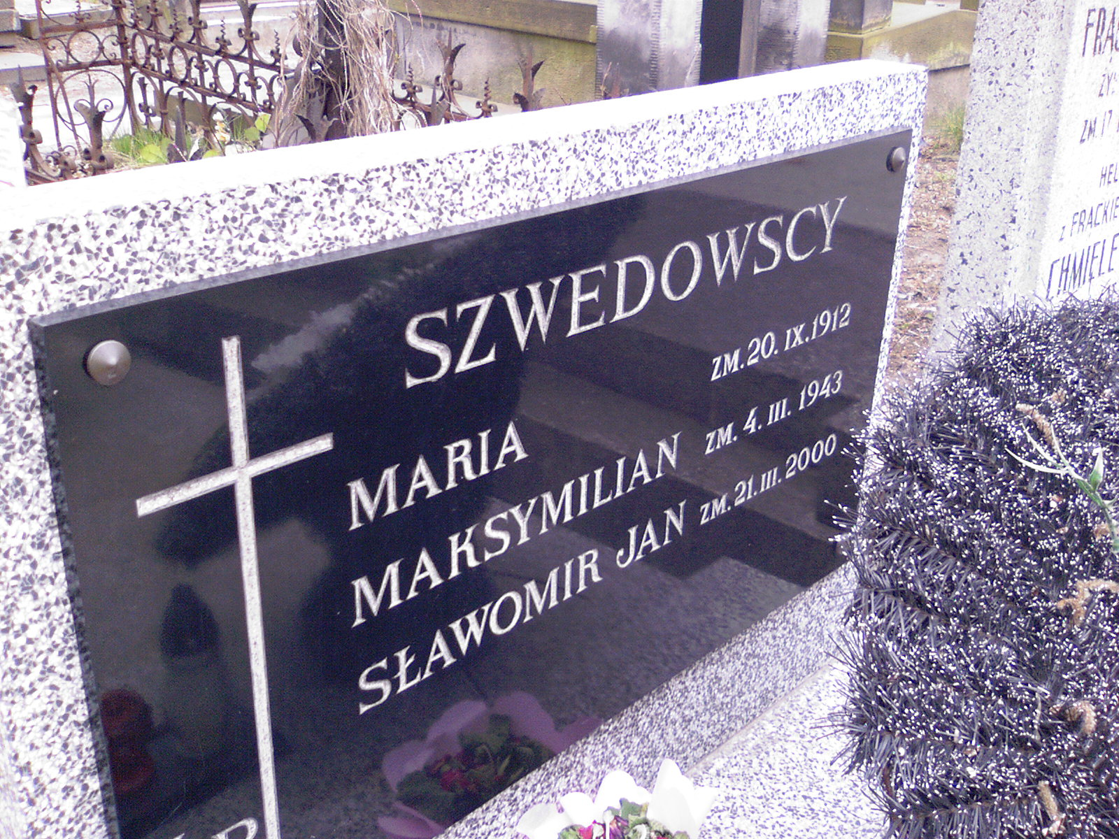 New Szwedowski h. Korwin family grave in Stare Powązki cemetery in Warsaw, Poland (remark, the surname is in a Polish plural way). In this tomb are buried Maksymilian Edward Szwedowski and his first wife Maria Szwedowska (Dygat); their great-nephew Sławomir Jan Szwedowski (Wiesław Jan Szwedowski’s elder son). This place used to be the “symbolic-grave” (because their bodies were not found) of Maksymilian’s second wife and their daughter too, but their names are not currently in this renovated grave by mistake. They were Walentyna Szwedowska (Korycka) (1872-1944) and Marta Szwedowska (1920-1944), they took part in the Warsaw Uprising and lost their life. This new grave is close to an old Szwedowski family grave that people may see at File:PL Warsaw Stare Powązki Szwedowski 1.jpg